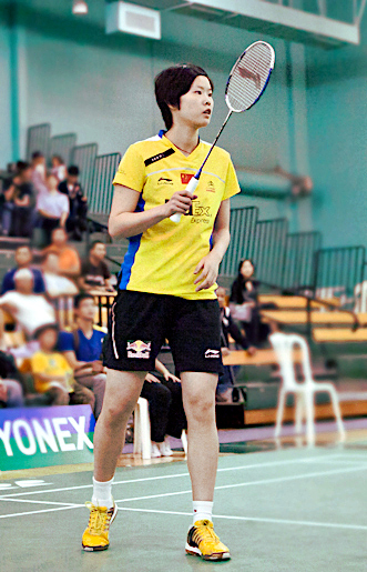 Li Xuerui at 2011 US Open (badminton). Photo by Sunny Wan.